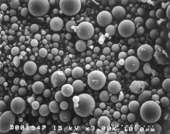 Photomicrograph made with a Scanning Electron Microscope (SEM): Fly ash particles at 2,000x magnification. Fly ash is typically finer than portland cement and lime. Fly ash consists of silt-sized particles which are generally spherical, typically ranging in size between 10 and 100 micron (see Figure). These small glass spheres improve the fluidity and workability of fresh concrete. Fineness is one of the important properties contributing to the pozzolanic reactivity of fly ash.